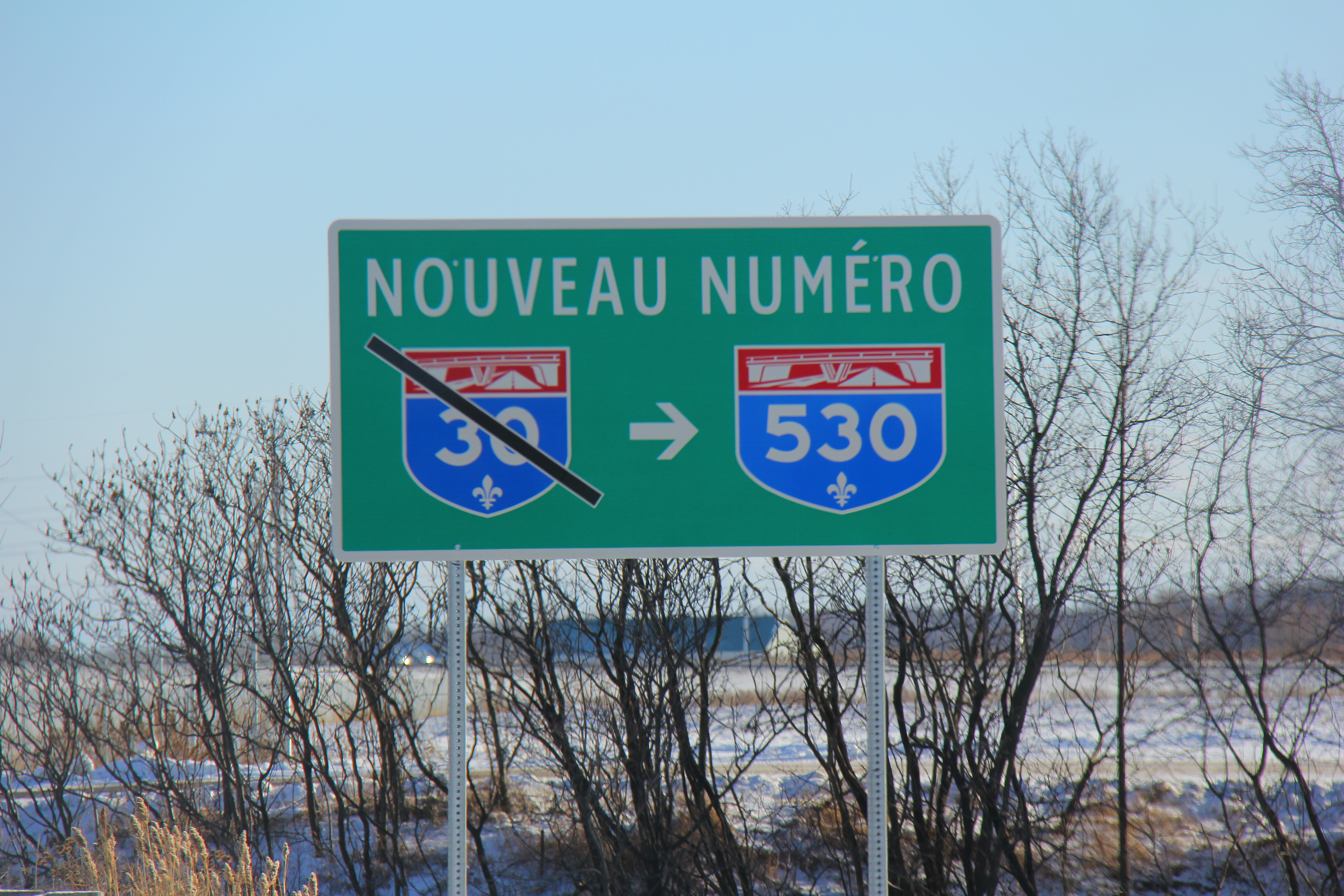 Signs explain the renumbering of former Quebec Autoroute 30